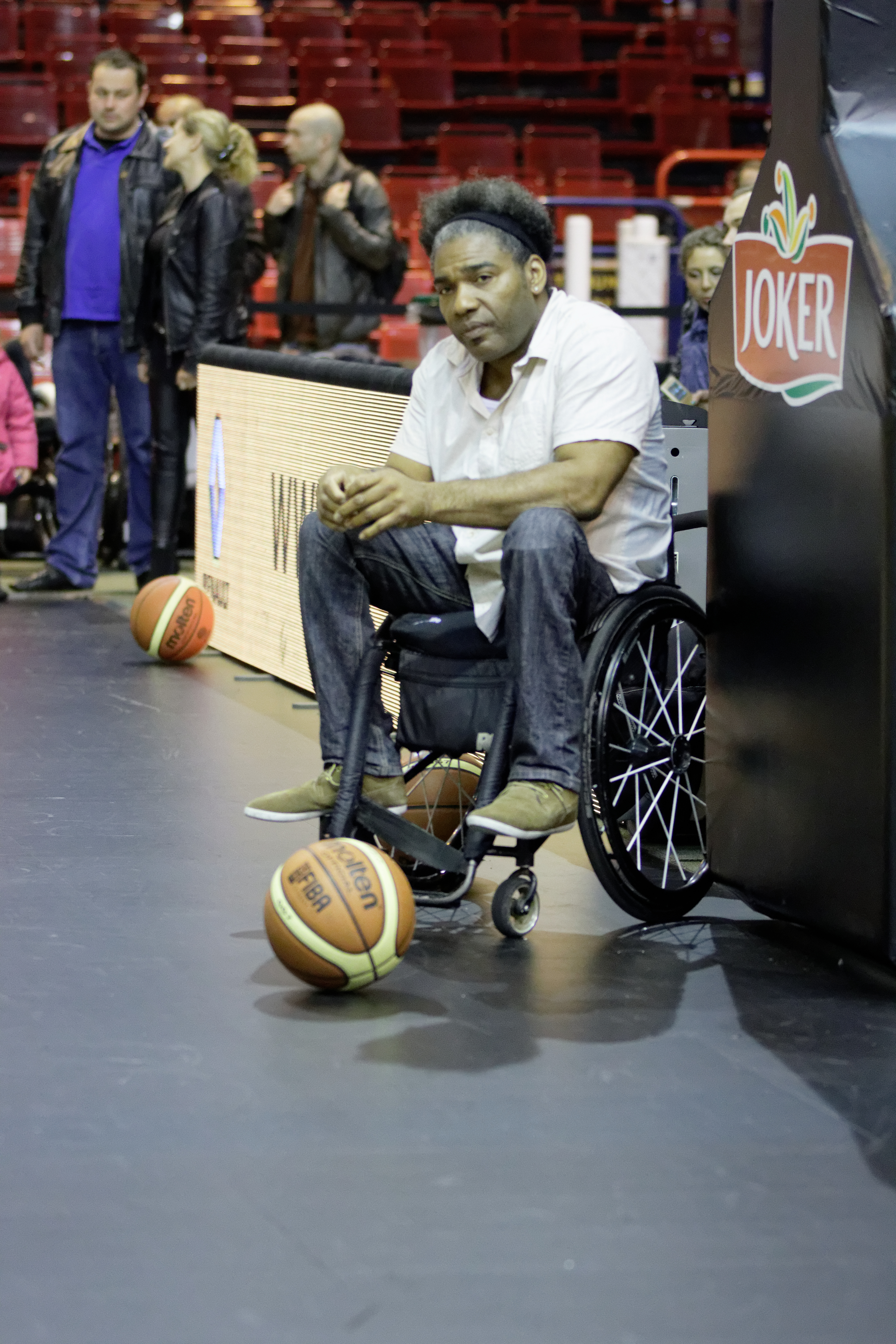 Final of the French Wheelchair Basketball Cup, CS Meaux vs Le Cannet, 1st May 2015.